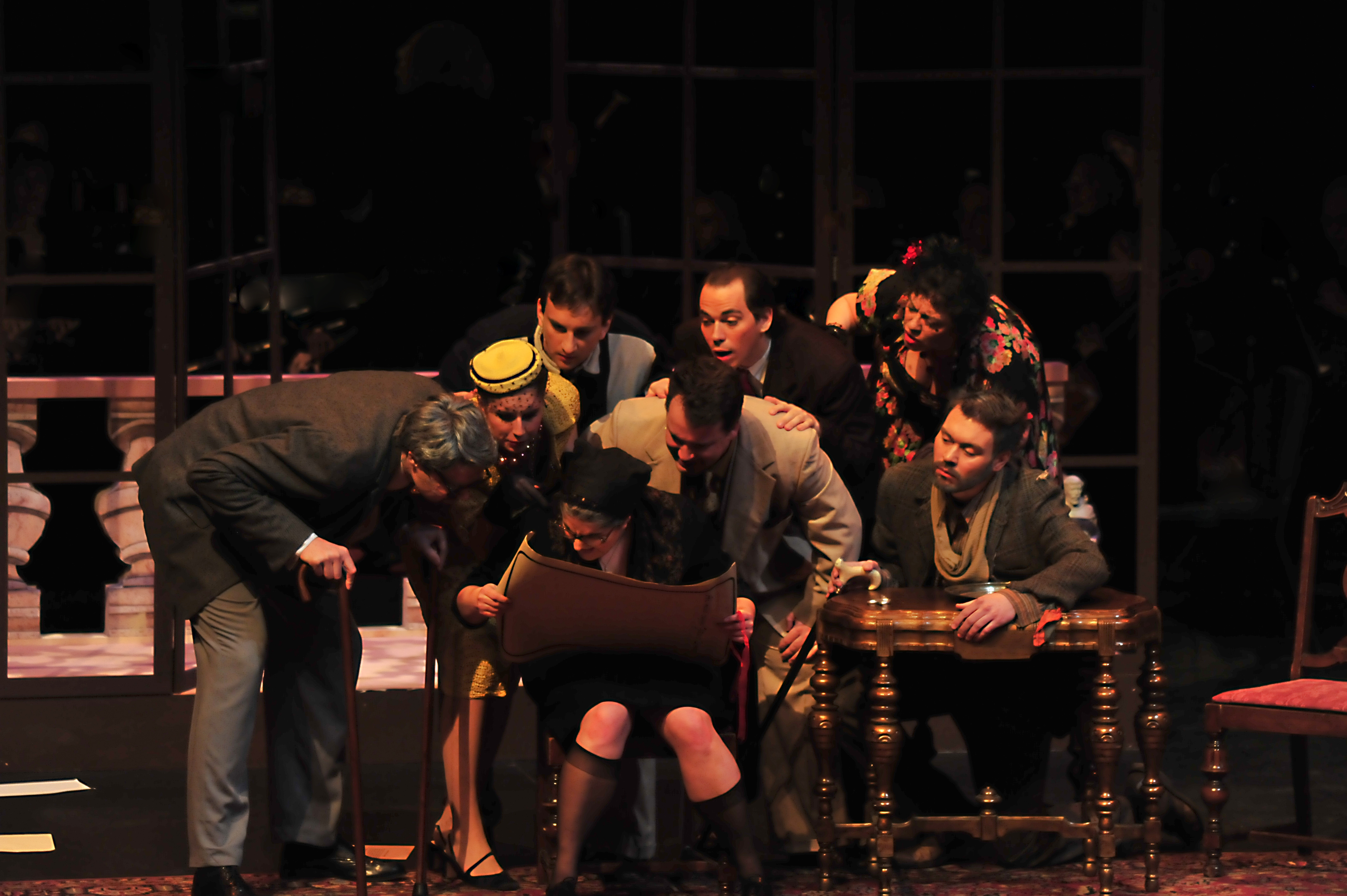 Giacomo Puccini's 1918 opera Gianni Schicchi, performed in 2011 by the DuPage Opera Theatre (DOT)